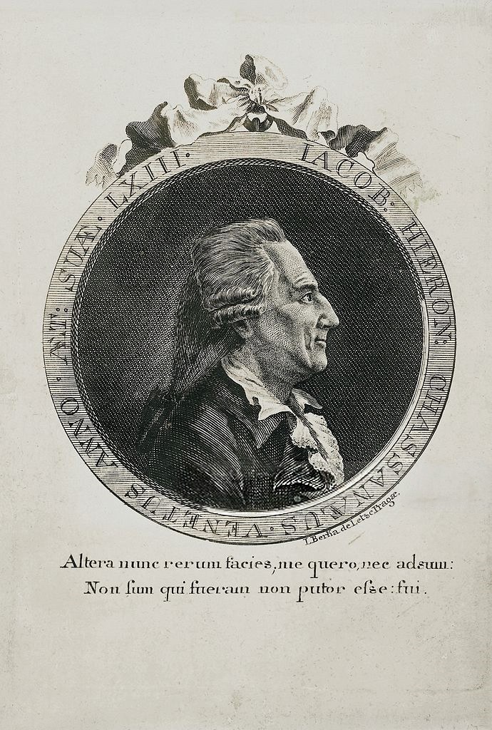 Medallion portrait of Casanova, done live in March 1788, engraving by Berka, used as frontispice for Icosameron (1788). Giacomo Girolamo Casanova, Venitian in his 63rd year.